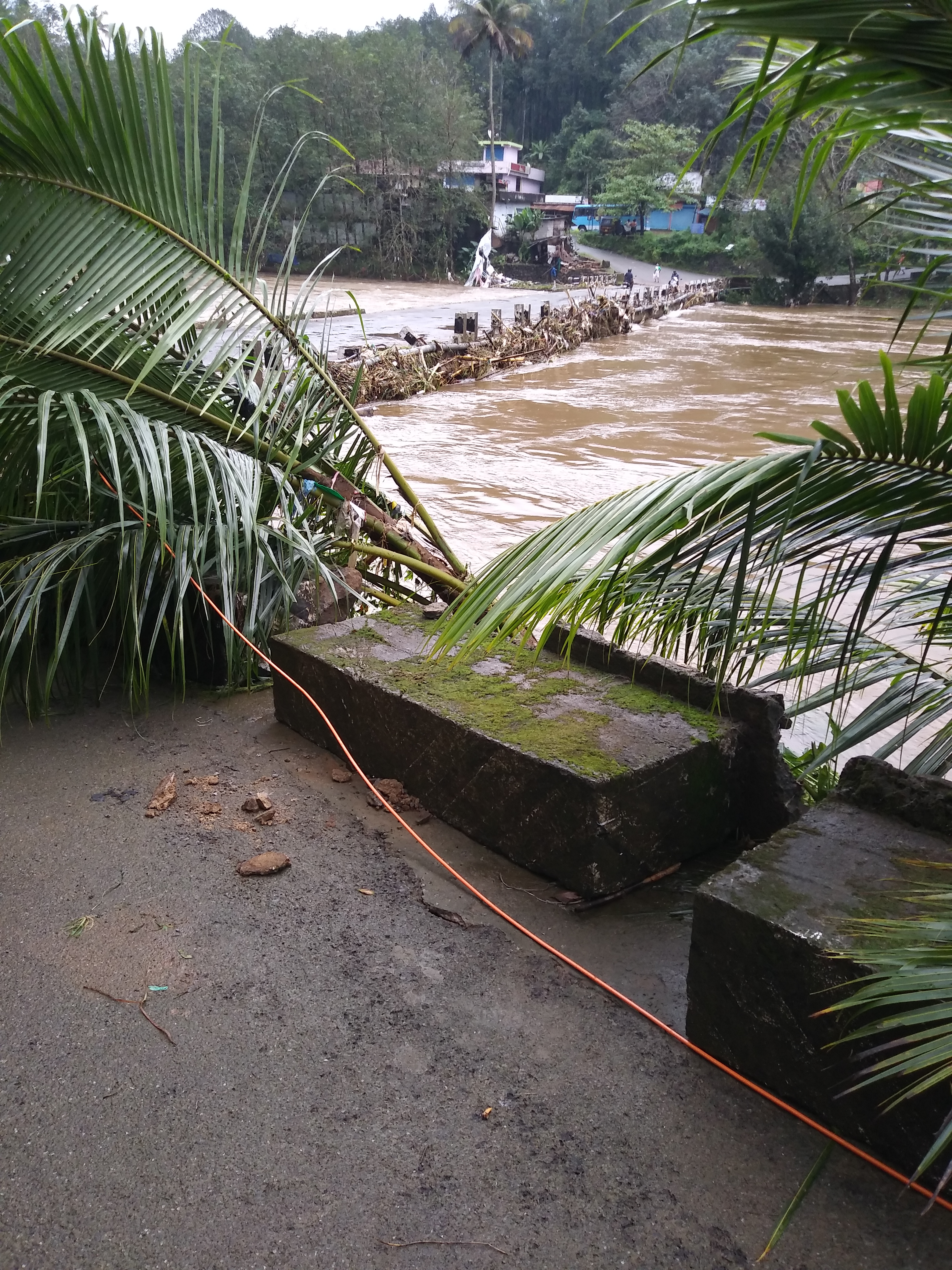 Manimalayar, just after a flash flood during 2018 Kerala floods. Photographed at Pazhayidom bridge, Kanjirappally.